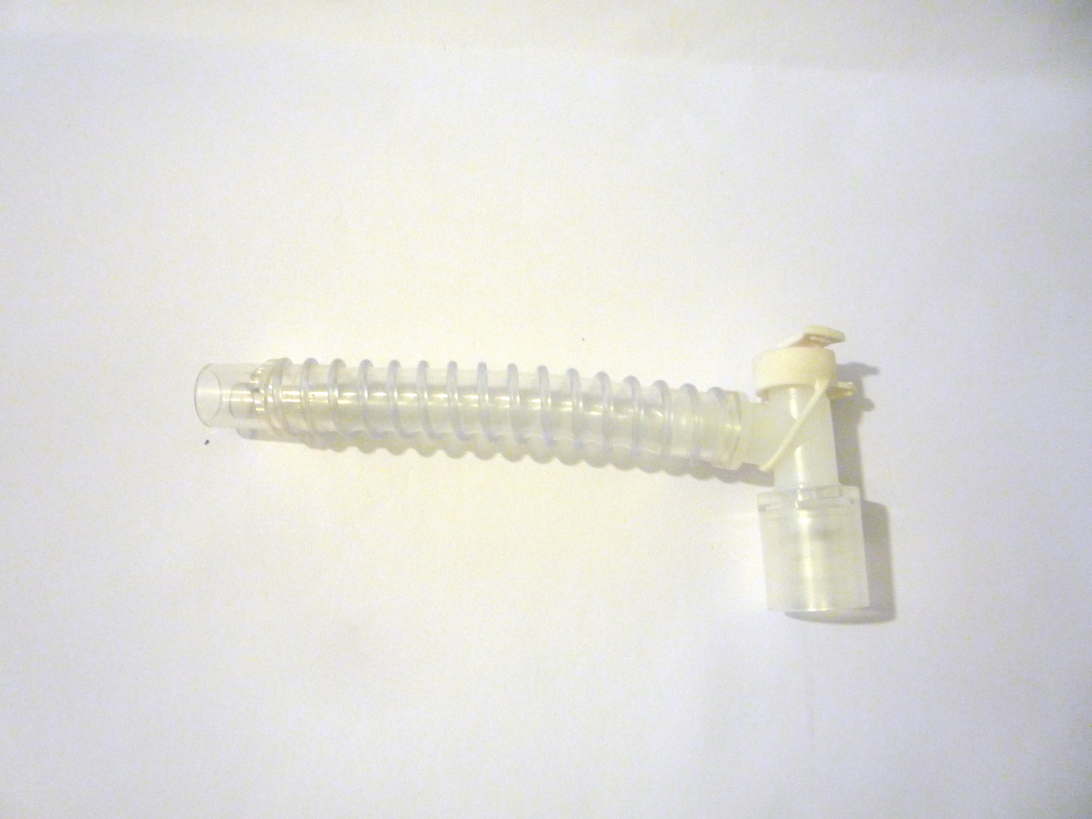 Catheter mount